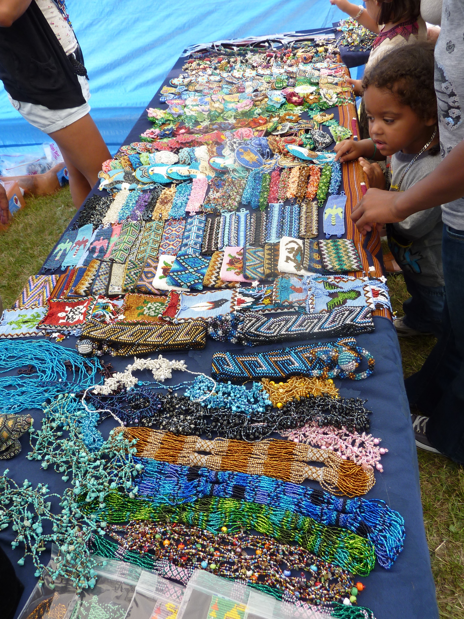 Crafts at the Burnt Church pow wow in 2011.